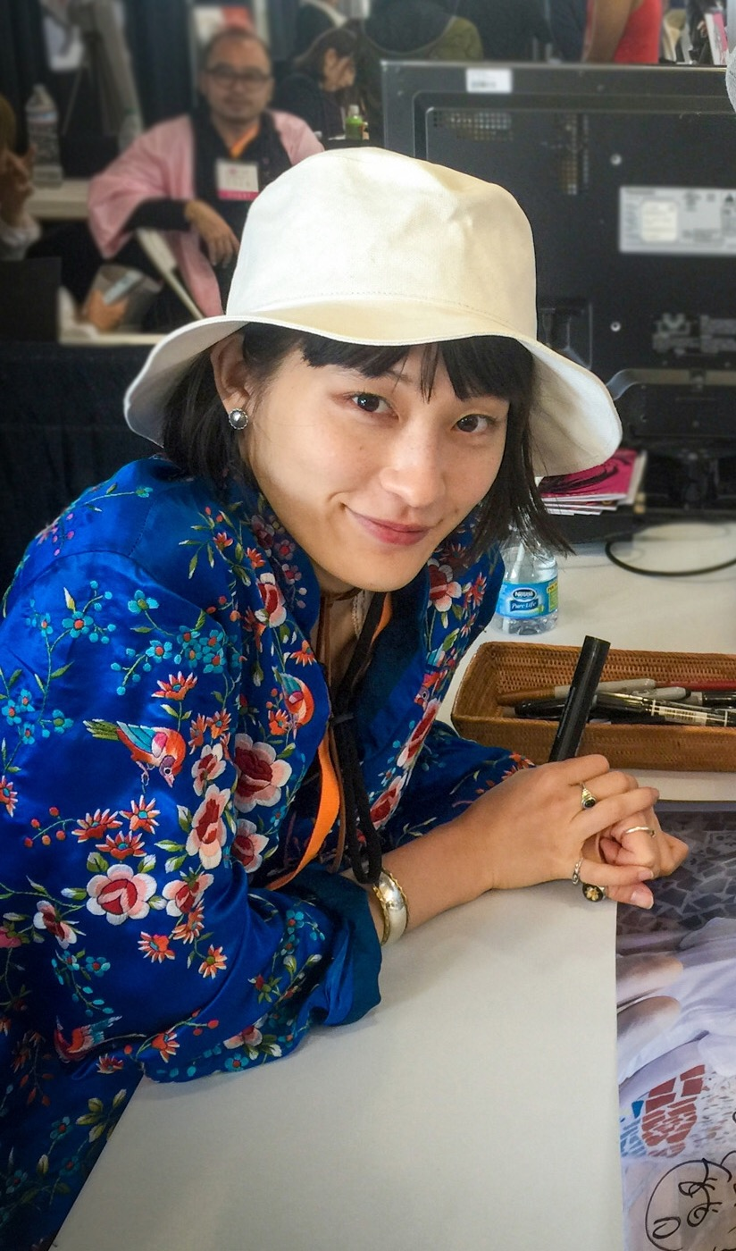 Wednesday Campanella's KOM_I signing autographs at J-POP Summit 2016.